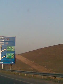 Road 35-Freeway 2 in Iran